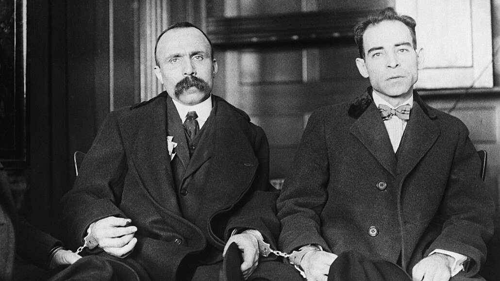 Bartolomeo Vanzetti (left), handcuffed to Nicola Sacco (right). Dedham, Massachusetts Superior Court, 1923. This photo was taken in 1923 when Sacco was on the 23rd day of a hunger strike.